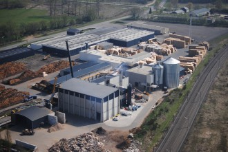 Aerial view of the plant of Latour